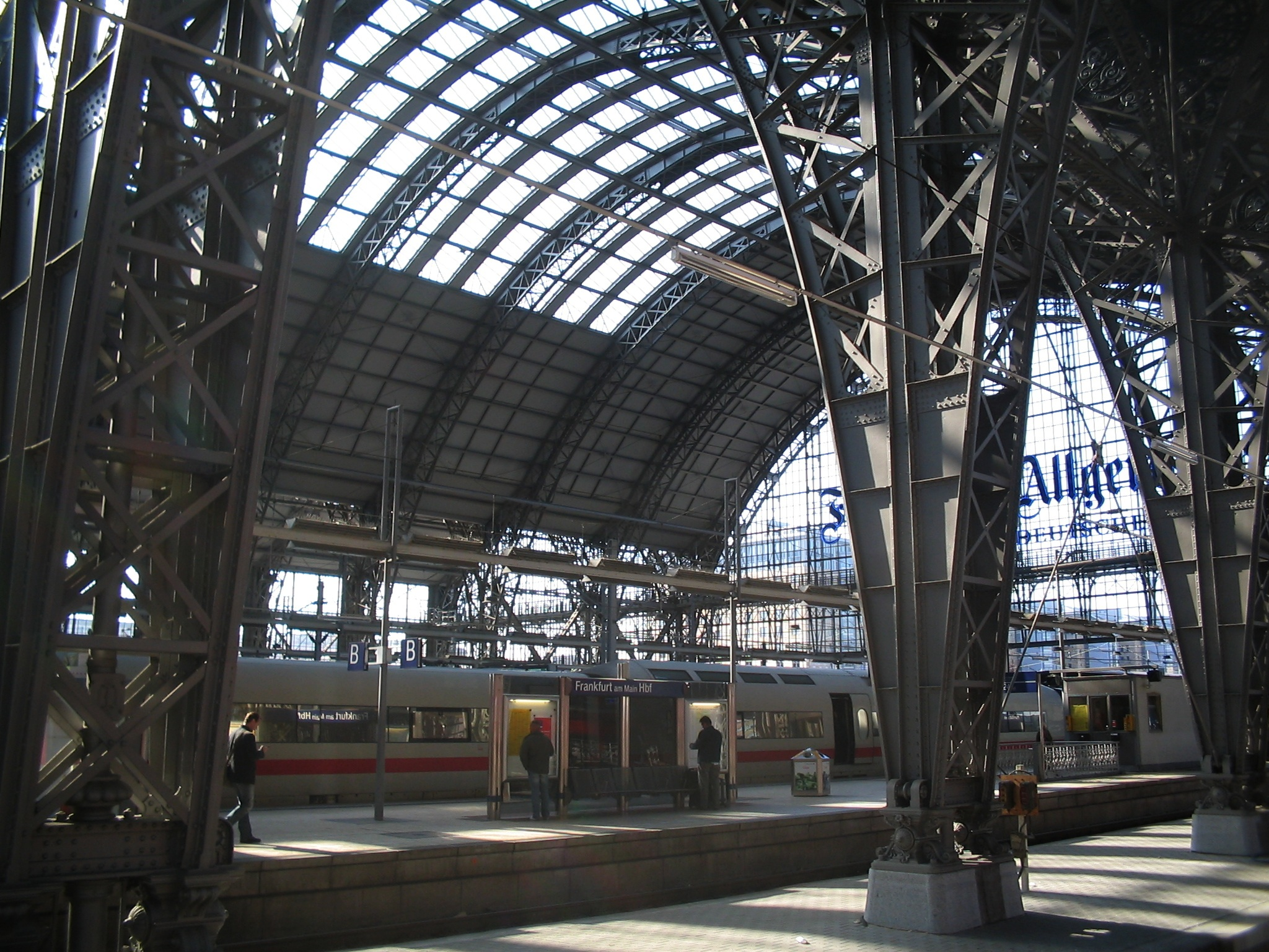 Platform hall of Frankfurt am Main Hauptbahnhof, Germany